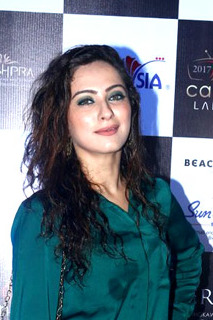 Lavina Tandon launch of Telly Calendar 2017